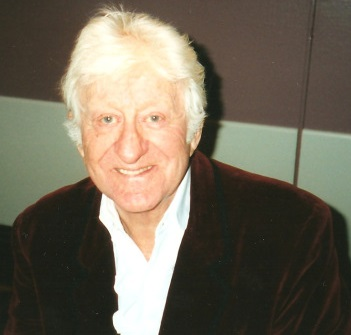 Jon Pertwee March 1996 at Doctor Who Convention, in Glasgow, around 2 months before his death from a heart attack.